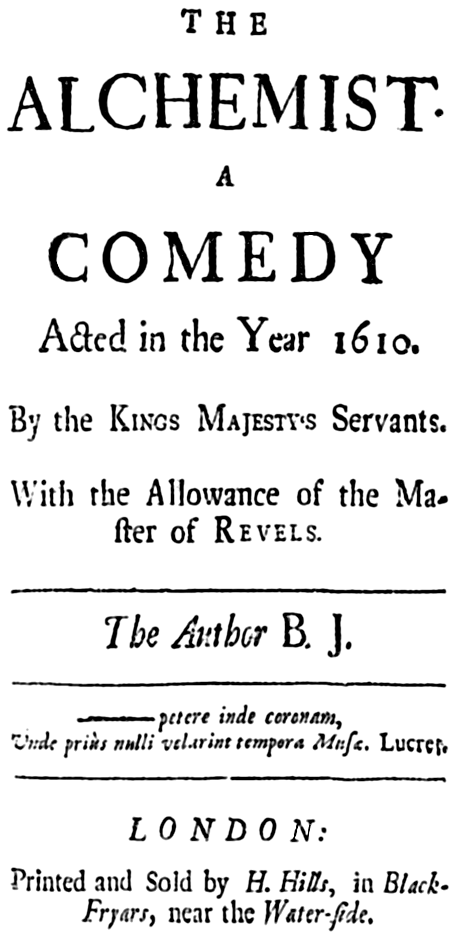 Ben Jonson - The Alchemist - title page - London 1610/1710?